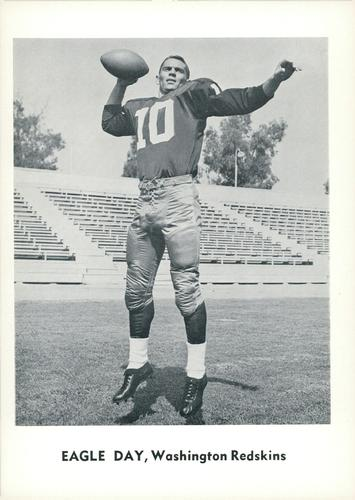 A publicity image of Washington Redskins player Eagle Day.